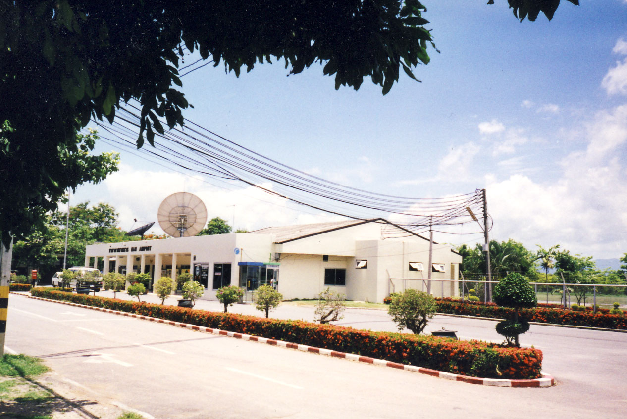 Terminalbuilding of Nan Airport, Nan Province, northern Thailand